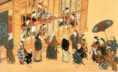 「張見世の図」Harimise no zu ("Picture of the display of prostitutes behind a grill"). painting by Japanese artist Miyagawa Chōki. From the era (1716–1736).